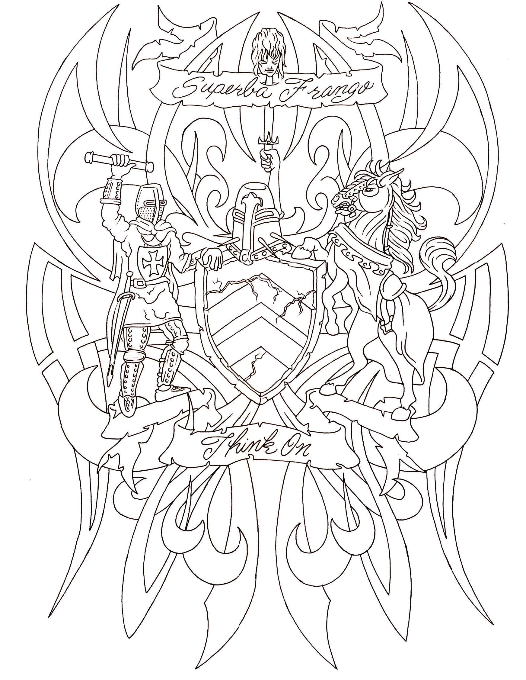 macLellan;McLellan - Coat of Arms